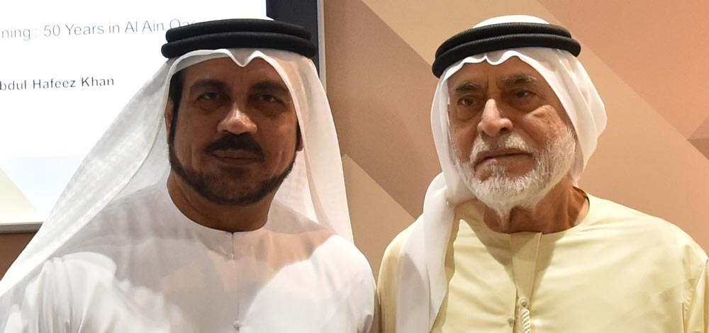 Al yousefi during his book Launch